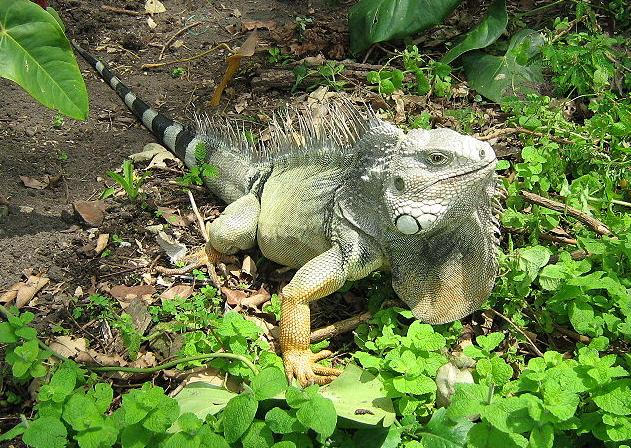 Iguana Iguana Photo taken at the Zoo Sta Fe Medellin Colombia